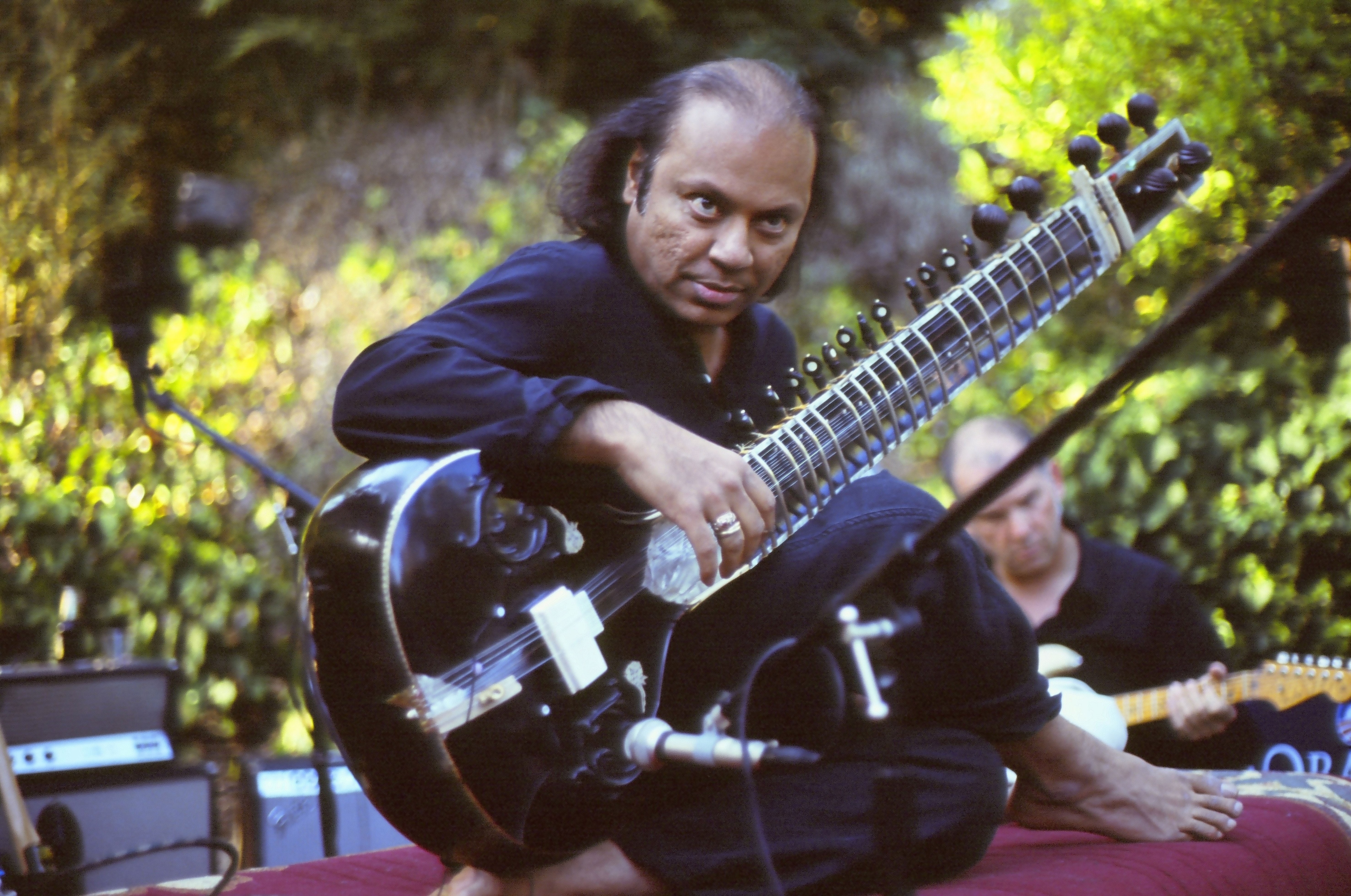 Nishat Khan in Los Angeles, California, in October 2008